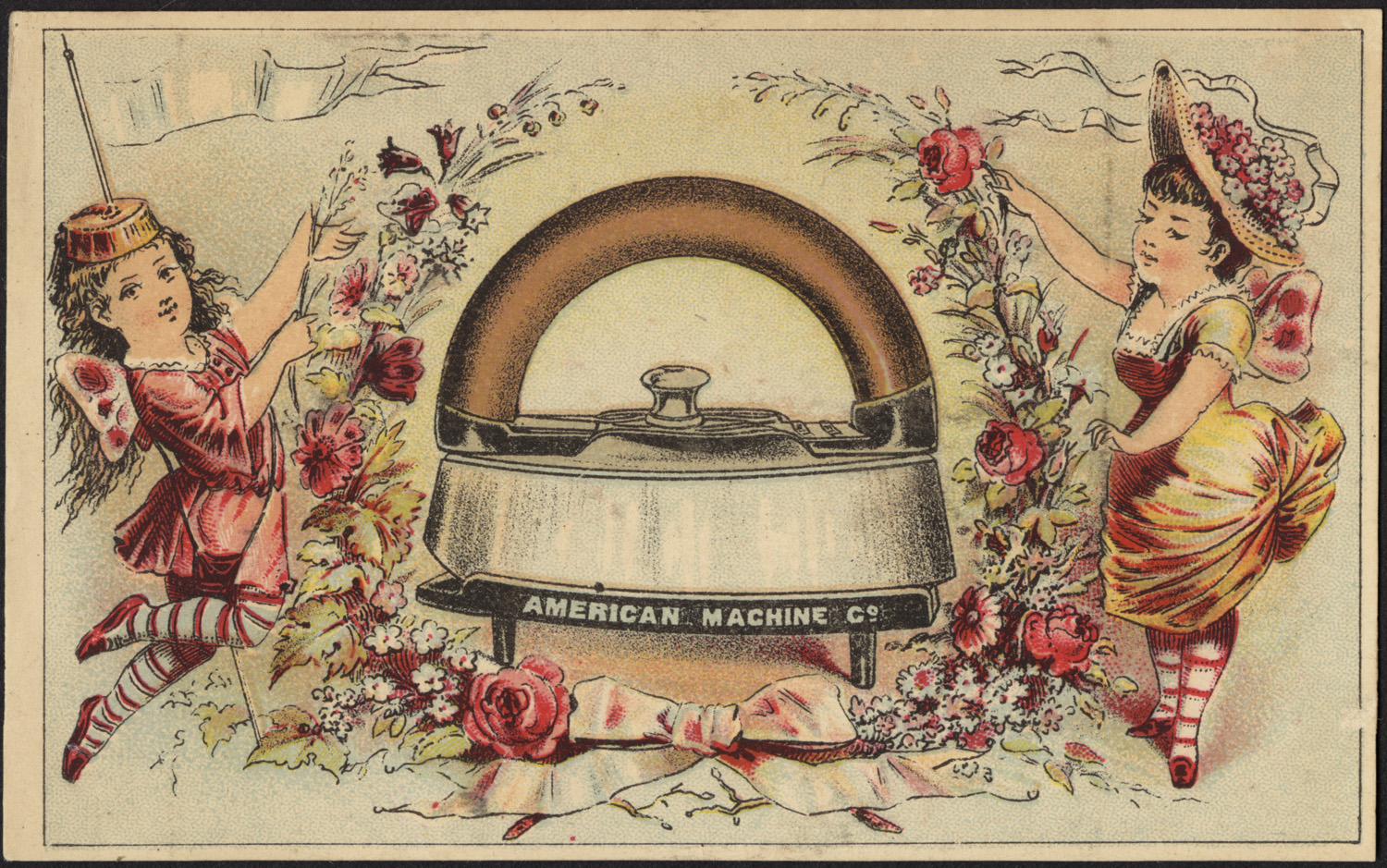 American Machine Company sadiron of Mrs Potts removable detachable wooden handle system